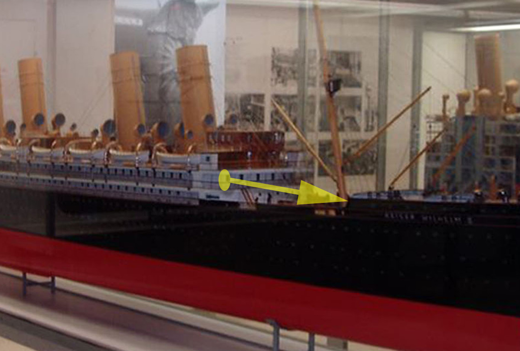 Likely point of view for "The Steerage" by Alfred Steiglitz. Shown on a model of the Steam Ship "Kaiser Wilhelm II" at Deutsches Museum, Munich